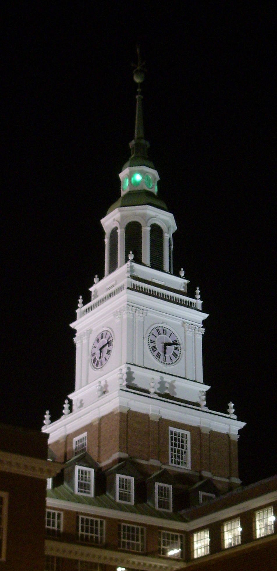 Photograph of the tower of Baker Memorial Library at the campus of Dartmouth College in Hanover, New Hampshire. The light glows green on certain occasions, in this case marking a meeting of the Board of Trustees.[1]